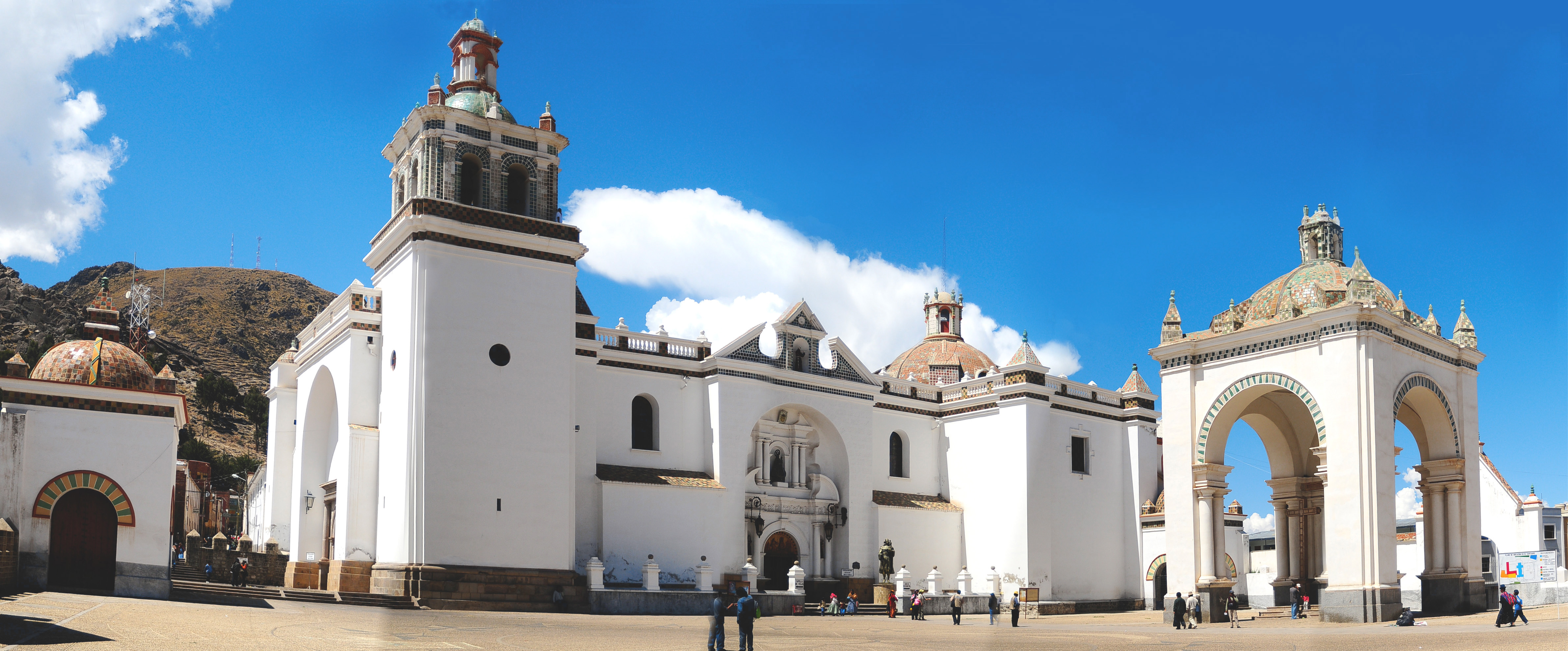 Panoramic of the Basilica of Our Lady of Copacabana, Bolivia